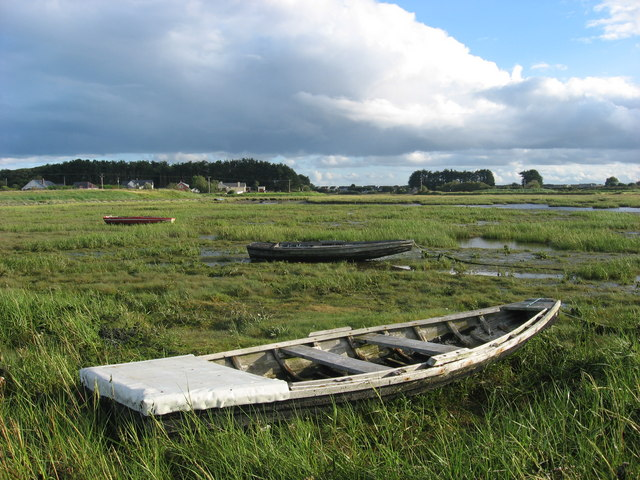 Traditional fishing boats at The Crook, Mornington Clinker-built boats, known as canoes, used for salmon fishing between Drogheda and the mouth of the River Boyne. They have six planks on either side of a flat keel.